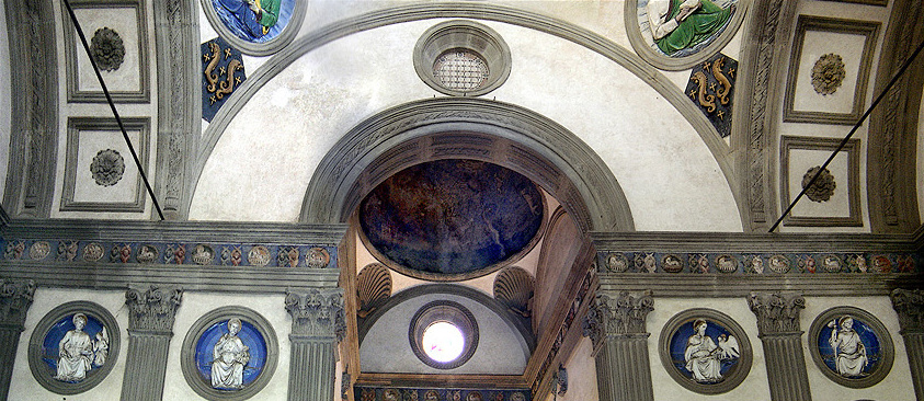 detail of Cappella dei Pazzi interior, Florence, Italy.